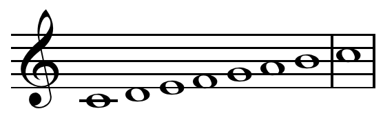 C major scale.